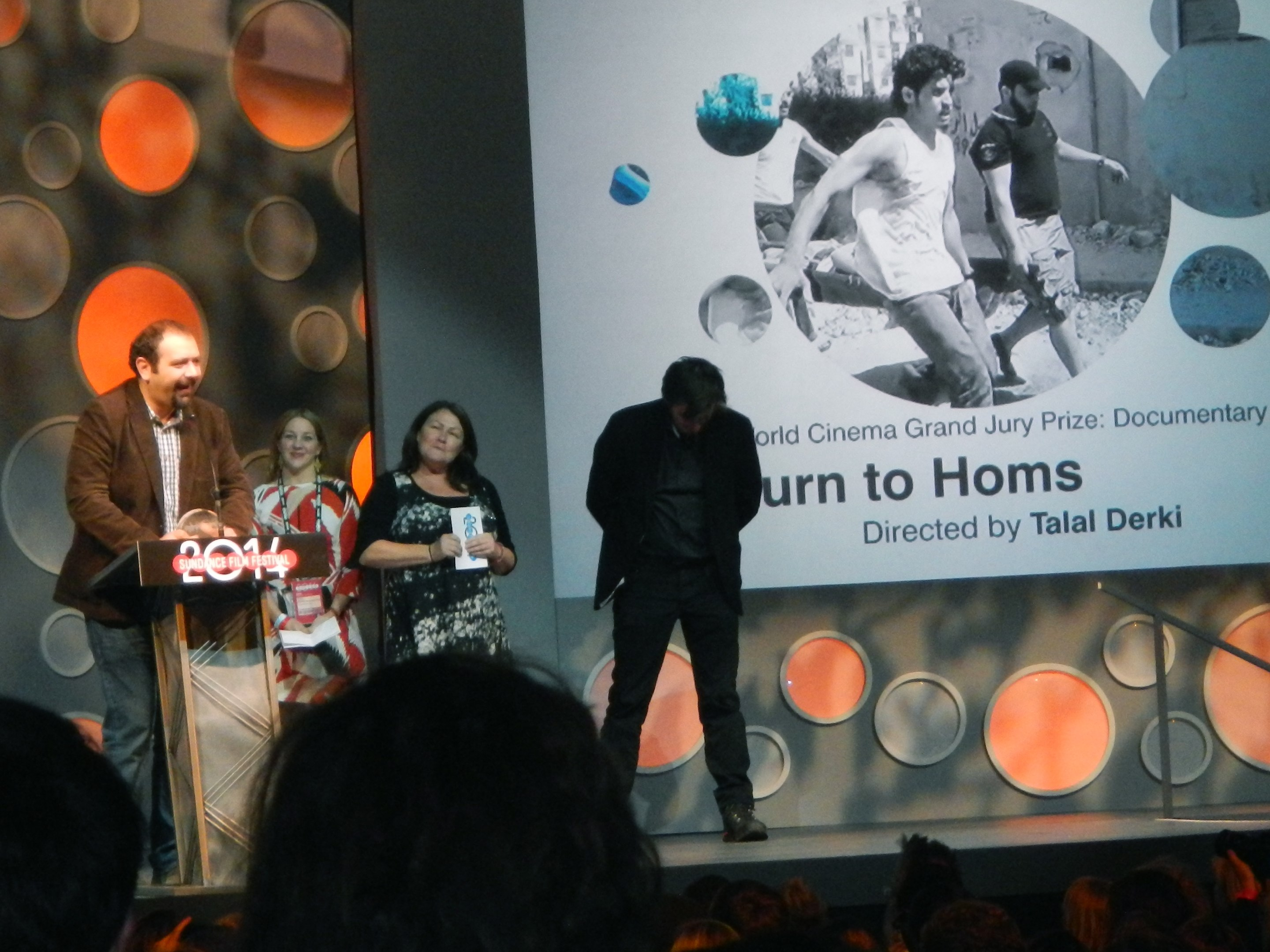 Sundance 2014 Awards Ceremony